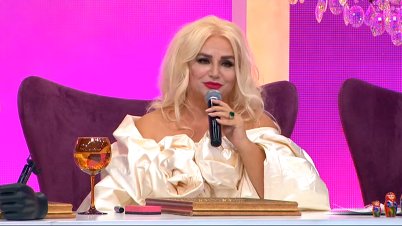 Turkish actress Banu Alkan during a TV-show called İşte Benim Stilim.